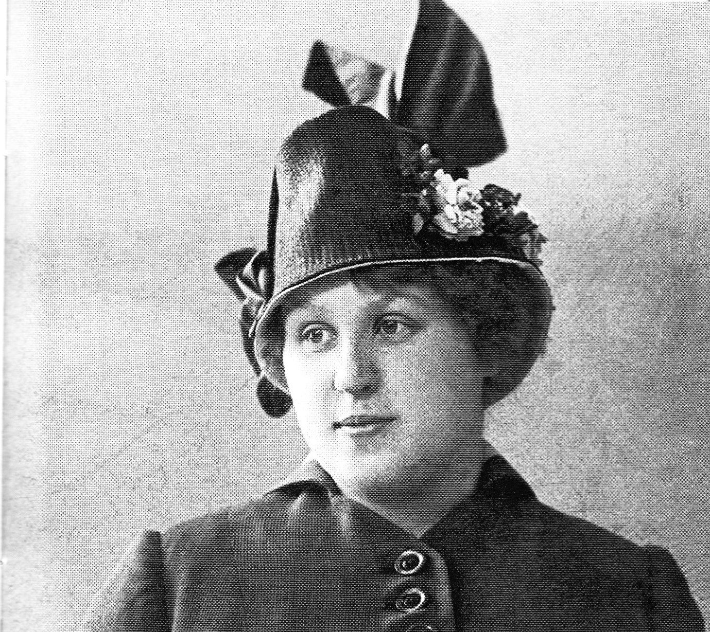 Elli Suokas